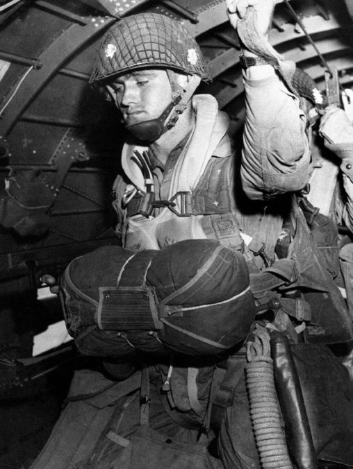 Paratrooper about to jump into combat on D-Day, on June 6, 1944 -- the invasion of Normandy